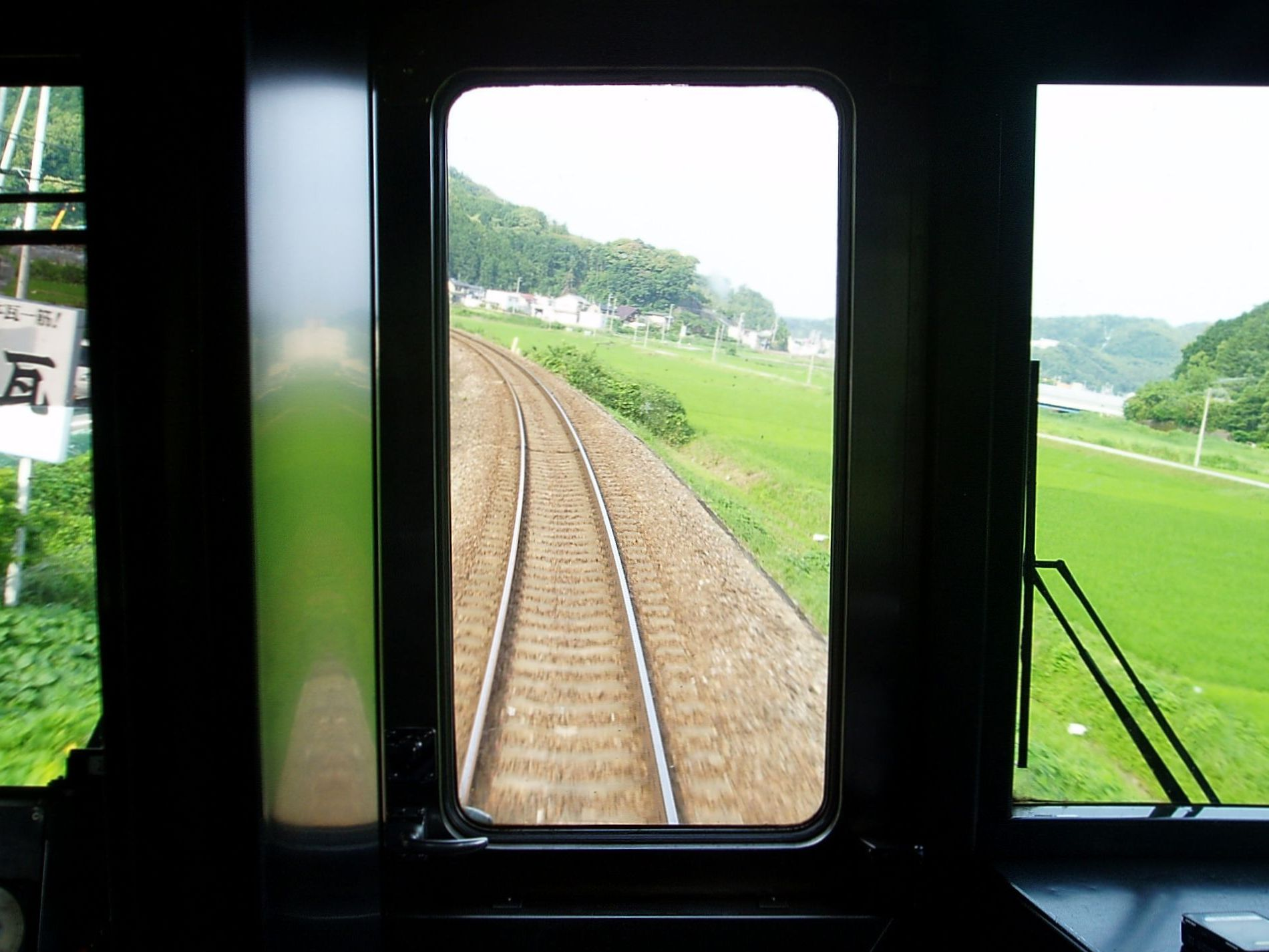 Front scenery at the time of a body inclination by DMU 2000 of JR Shikoku